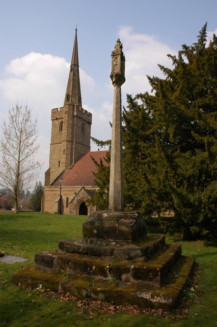 Stone cross in Holy Trinity parish churchyard, Belbroughton, Worcestershire, seen from the southeast, with the church steeple in the background. The cross is late Medieval, and was restored early in the 20th century as a monument to Major-General Sir Edward Woodgate, who was killed in 1900 in the Second South African War.